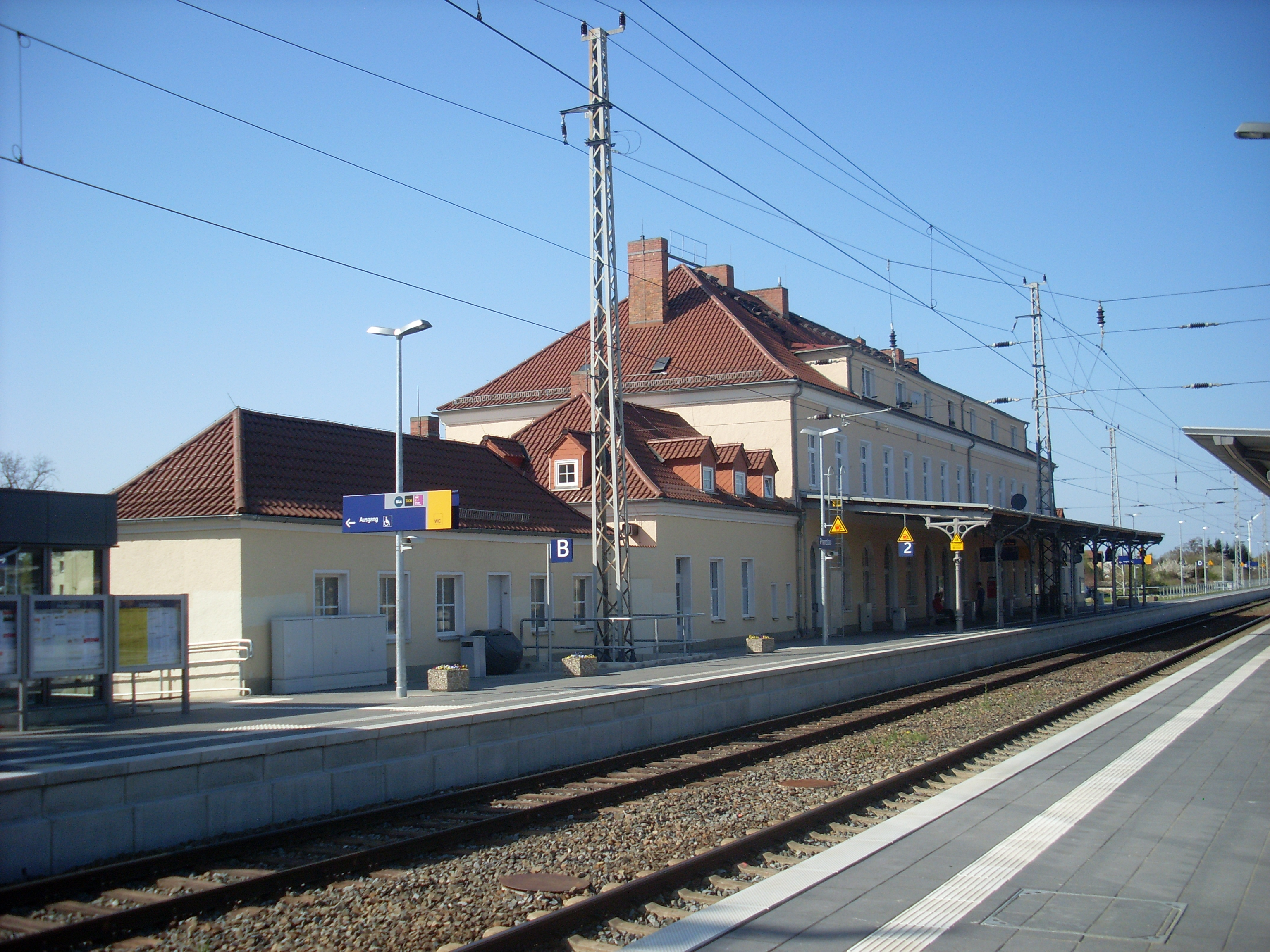 New platform at track 2.